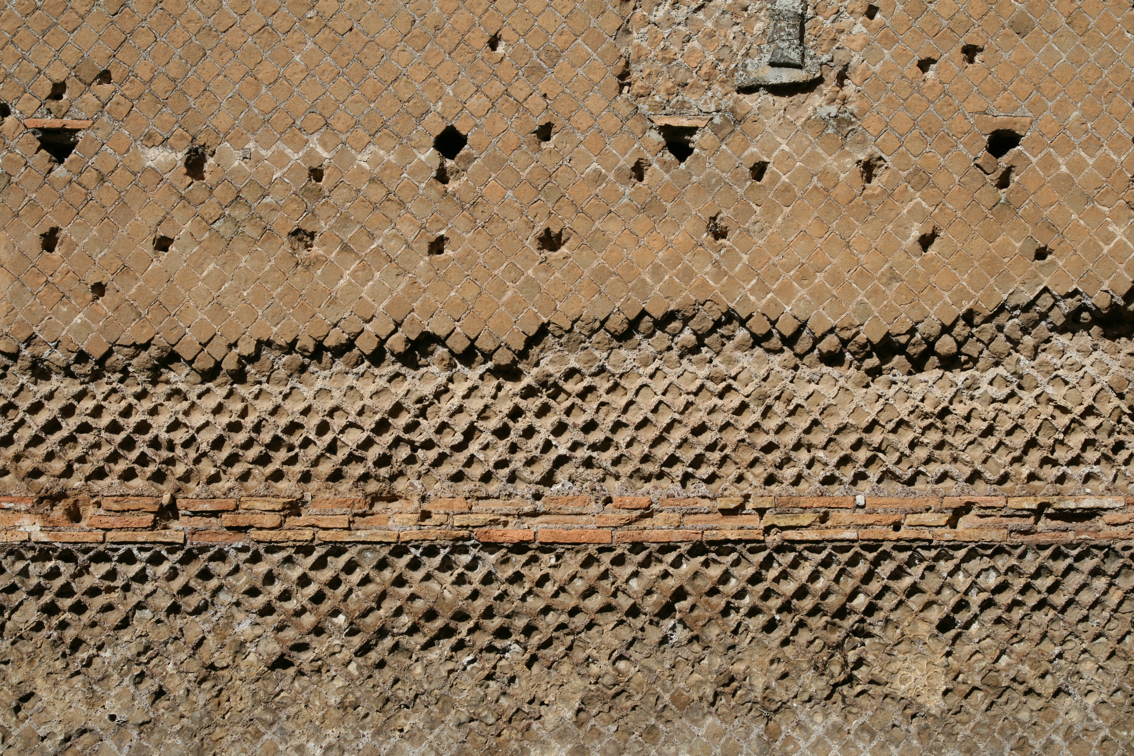 Opus reticulatum on the exterior wall of Hadrian's Villa, outside Tivoli, Italy.